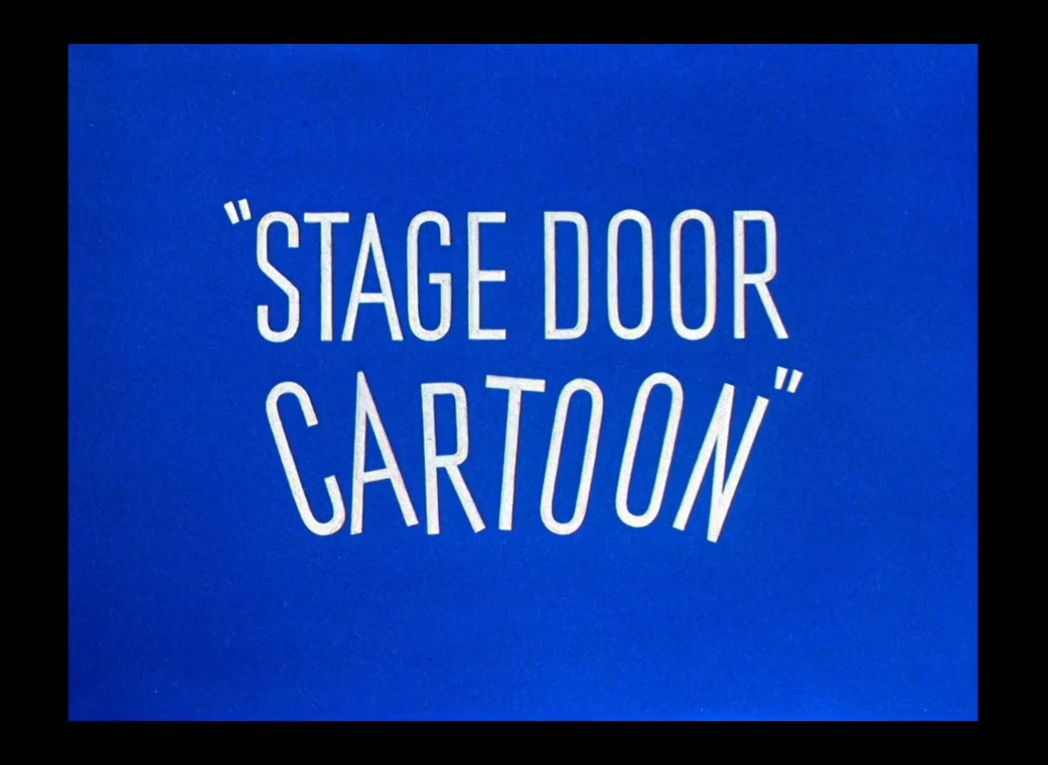 Title card of the Merrie Melodies short film "Stage Door Cartoon", starring Bugs Bunny.